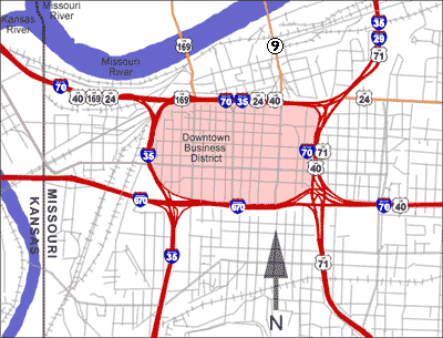 Map of the Downtown Alphabet Loop in Kansas City, Missouri.